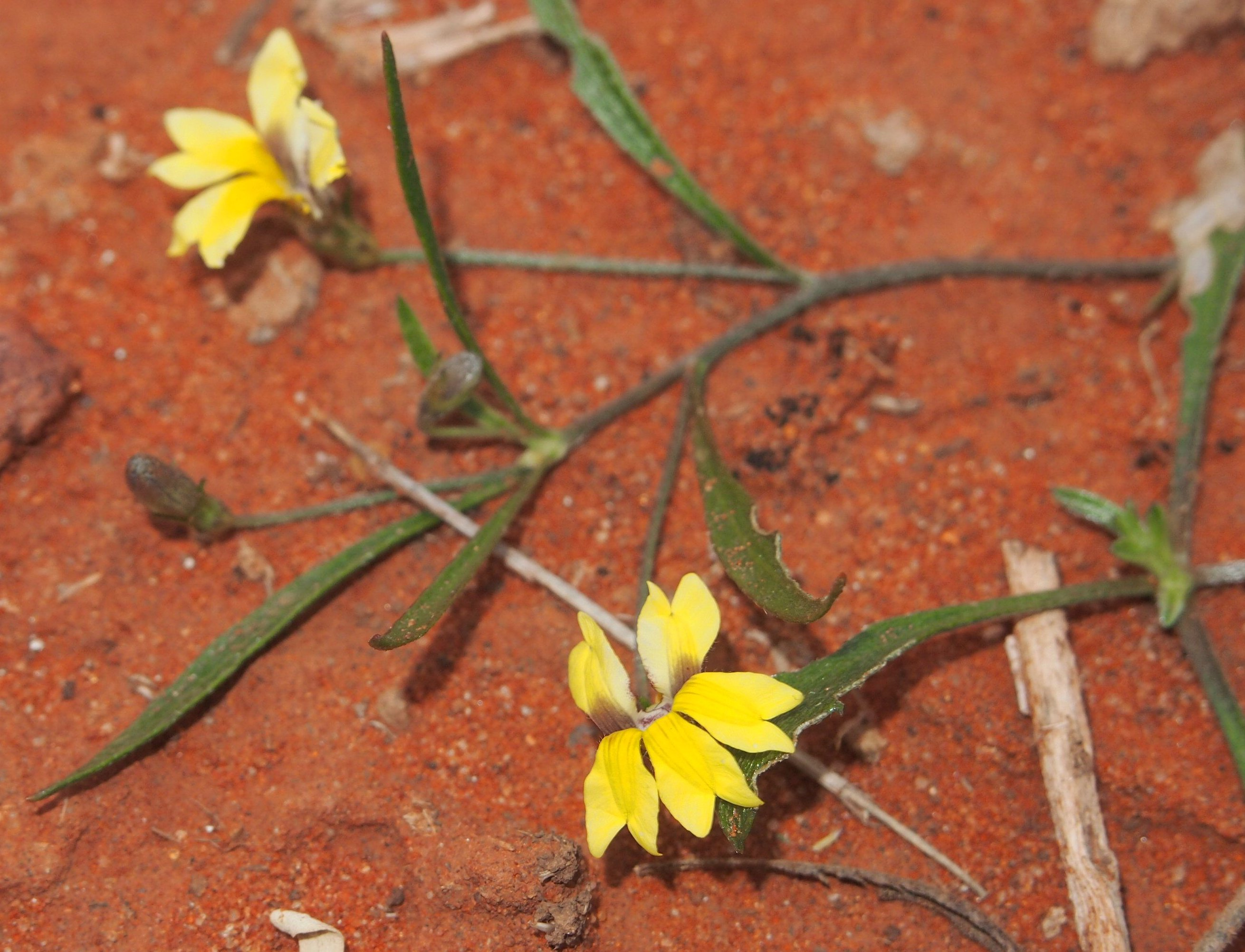 Goodenia lunata flowers